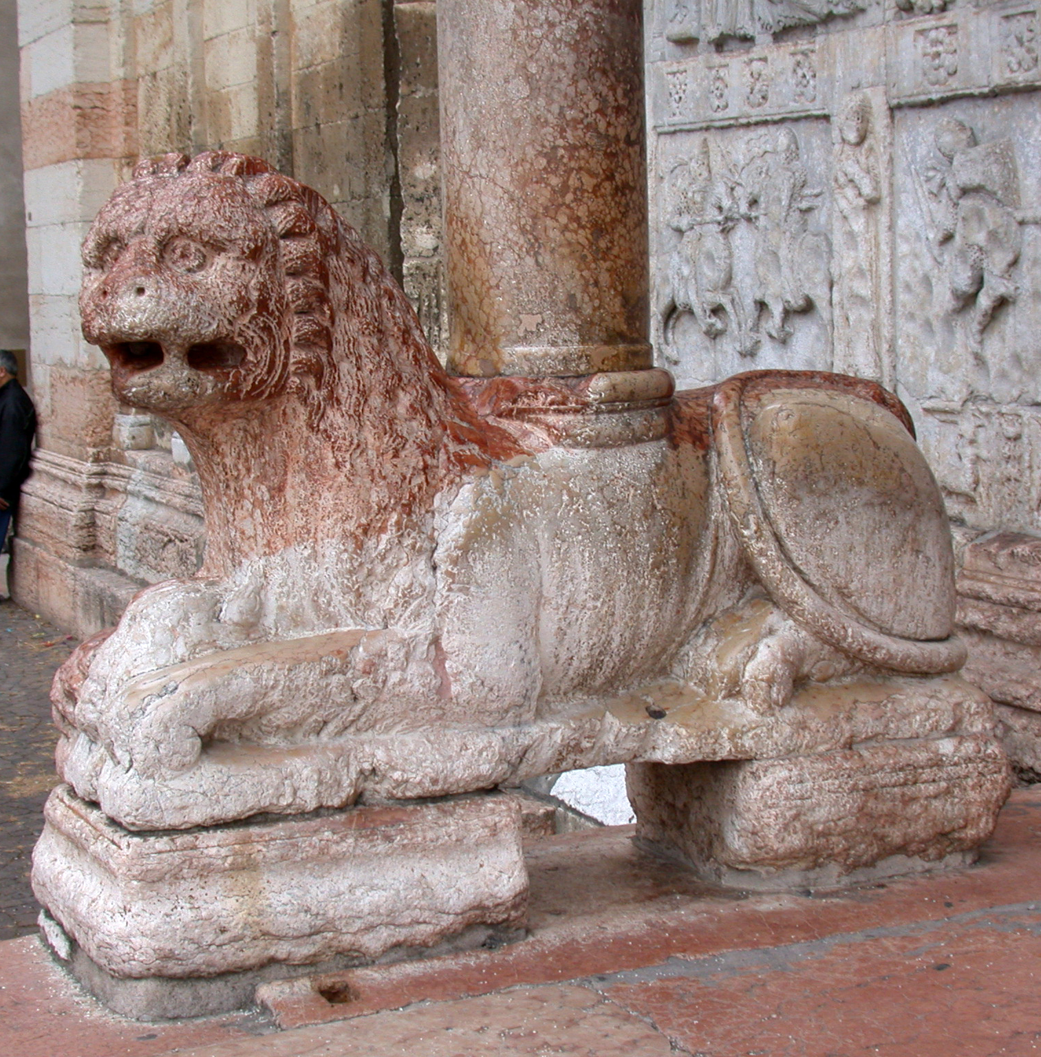 Verona, church of San Zeno Maggiore, Lion as base of the column at the main entrance